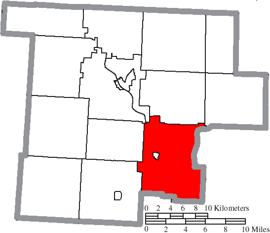 Map of the municipal and township boundaries of Morgan County, Ohio, United States, as of the 2000 census, with the location of Windsor Township highlighted. Township borders are shown only in unincorporated areas in order to differentiate incorporated and unincorporated areas more clearly.